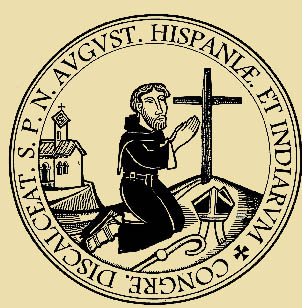 Seal of the Recollect Augustinian Order, based on a seal of 1588